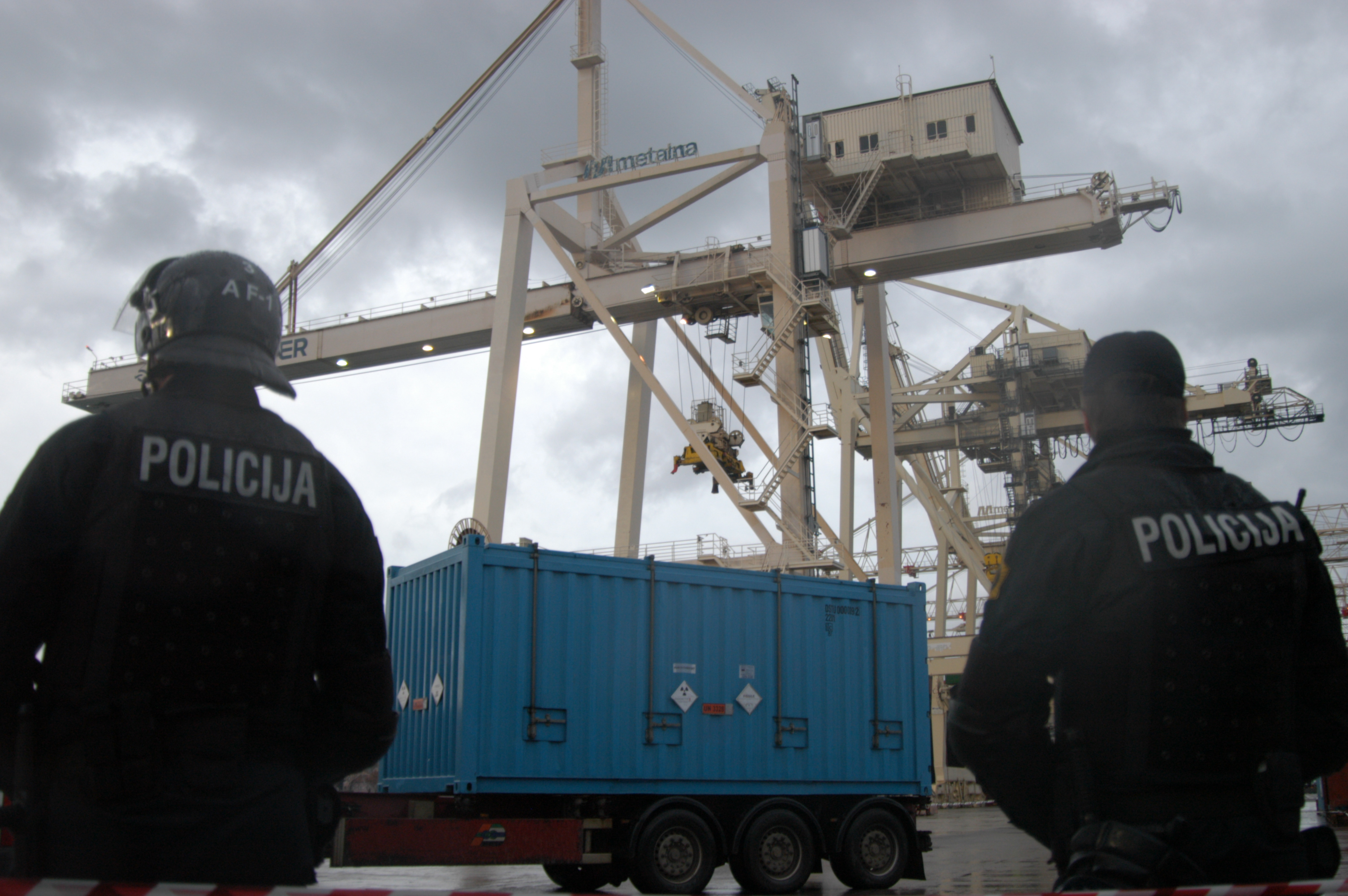 IAEA Coordinates Nuclear Fuel Shipment From Serbia Shipping containers are moved on board the cargo ship, the Puma (Koper, Slovenia; 21 November, 2010). Copyright: IAEA Imagebank Photo Credit: Greg Webb/IAEA